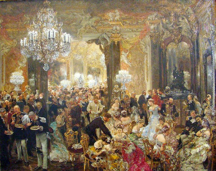 Das Ballsouper, painted by Adolph von Menzel 1878. Oil on canvas, 71x90 cn